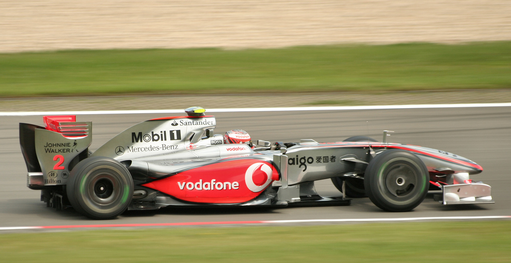 Heikki Kovalainen driving for McLaren at the 2009 German Grand Prix.